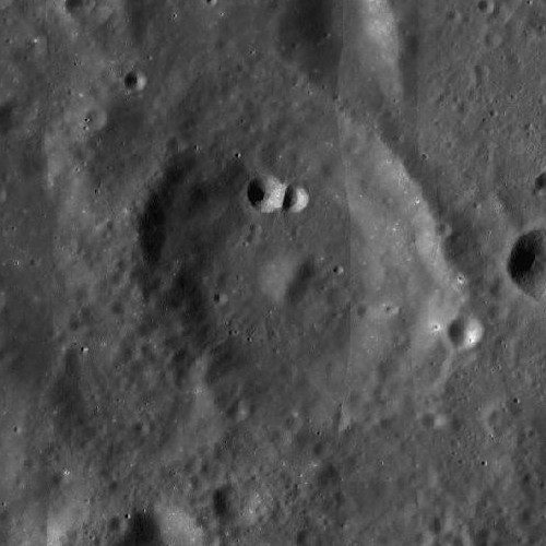 Argelander crater, on the moon. Lunar Reconnaissance Orbiter Wide Angle Camera (WAC) mosaic.